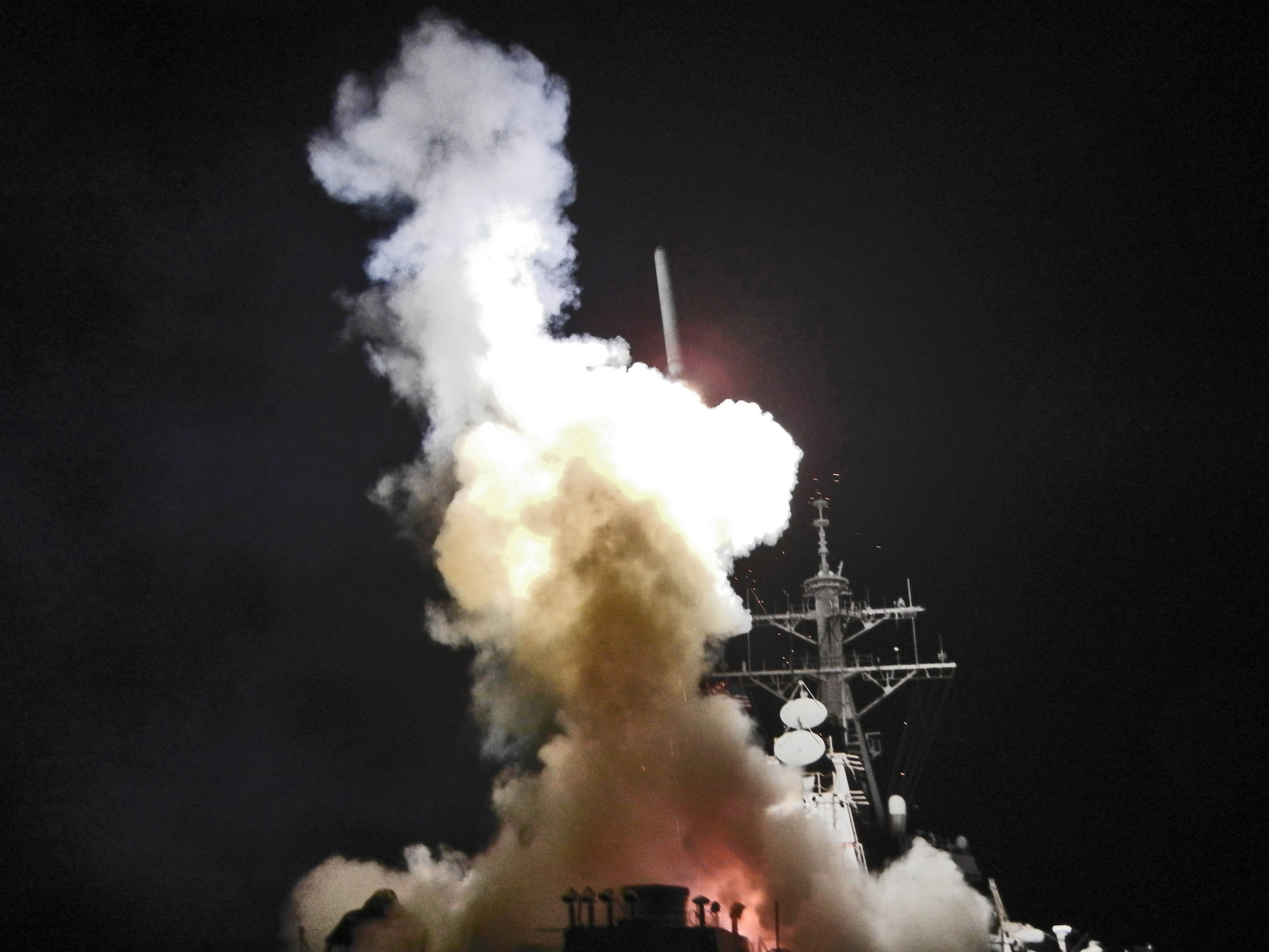 110319-N-7231E-001 MEDITERRANEAN SEA (March 19, 2011) The Arleigh Burke-class guided-missile destroyer USS Barry (DDG 52) launches a Tomahawk missile in support of Operation Odyssey Dawn. This was one of approximately 110 cruise missiles fired from U.S. and British ships and submarines that targeted about 20 radar and anti-aircraft sites along Libya's Mediterranean coast. Joint Task Force Odyssey Dawn is the U.S. Africa Command task force established to provide operational and tactical command and control of U.S. military forces supporting the international response to the unrest in Libya and enforcement of United Nations Security Council Resolution (UNSCR) 1973.